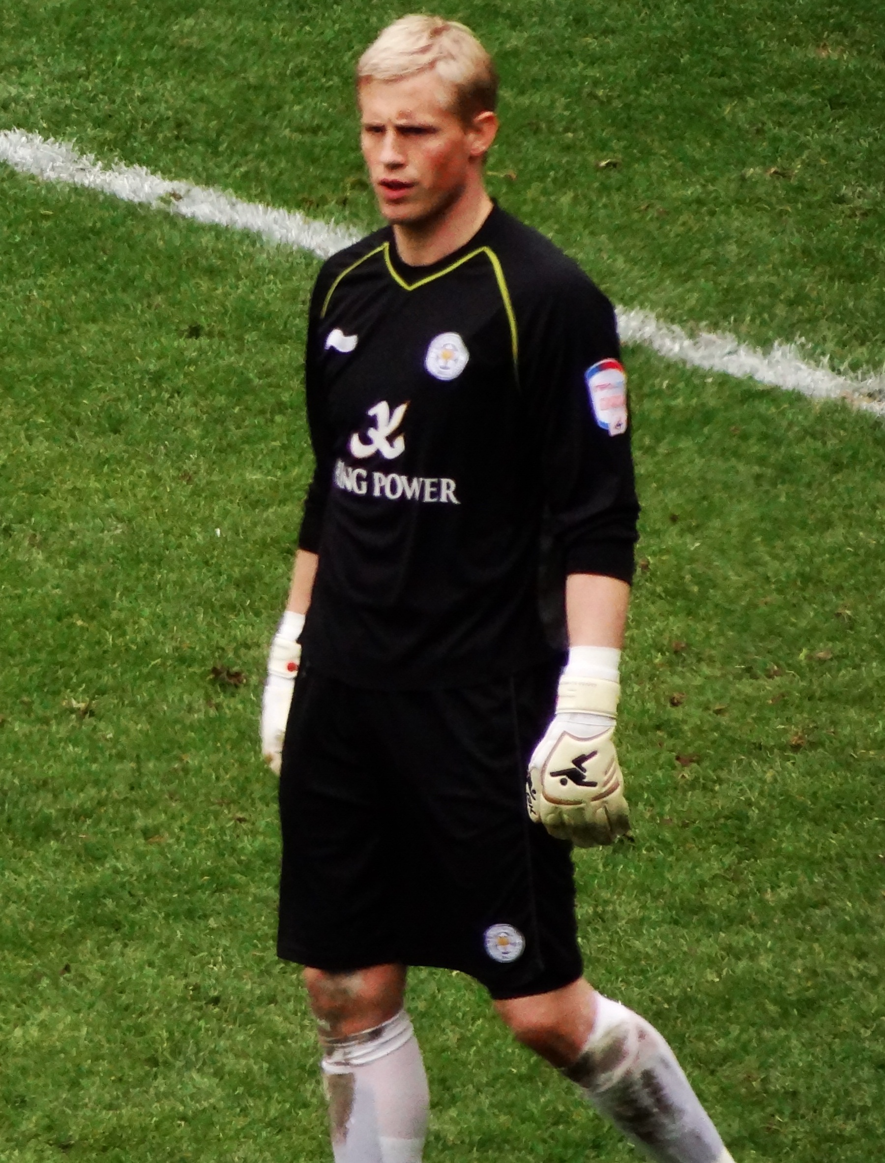 (Image cropped from original at Flickr)